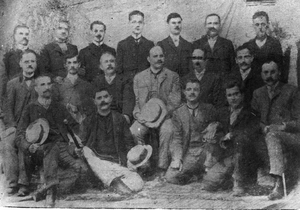 Group of Macedonian Greeks among them the teachers Angelos Papazahariou from Sohos, Georgios Sarantopoulos from Thessaloniki and Iatridis